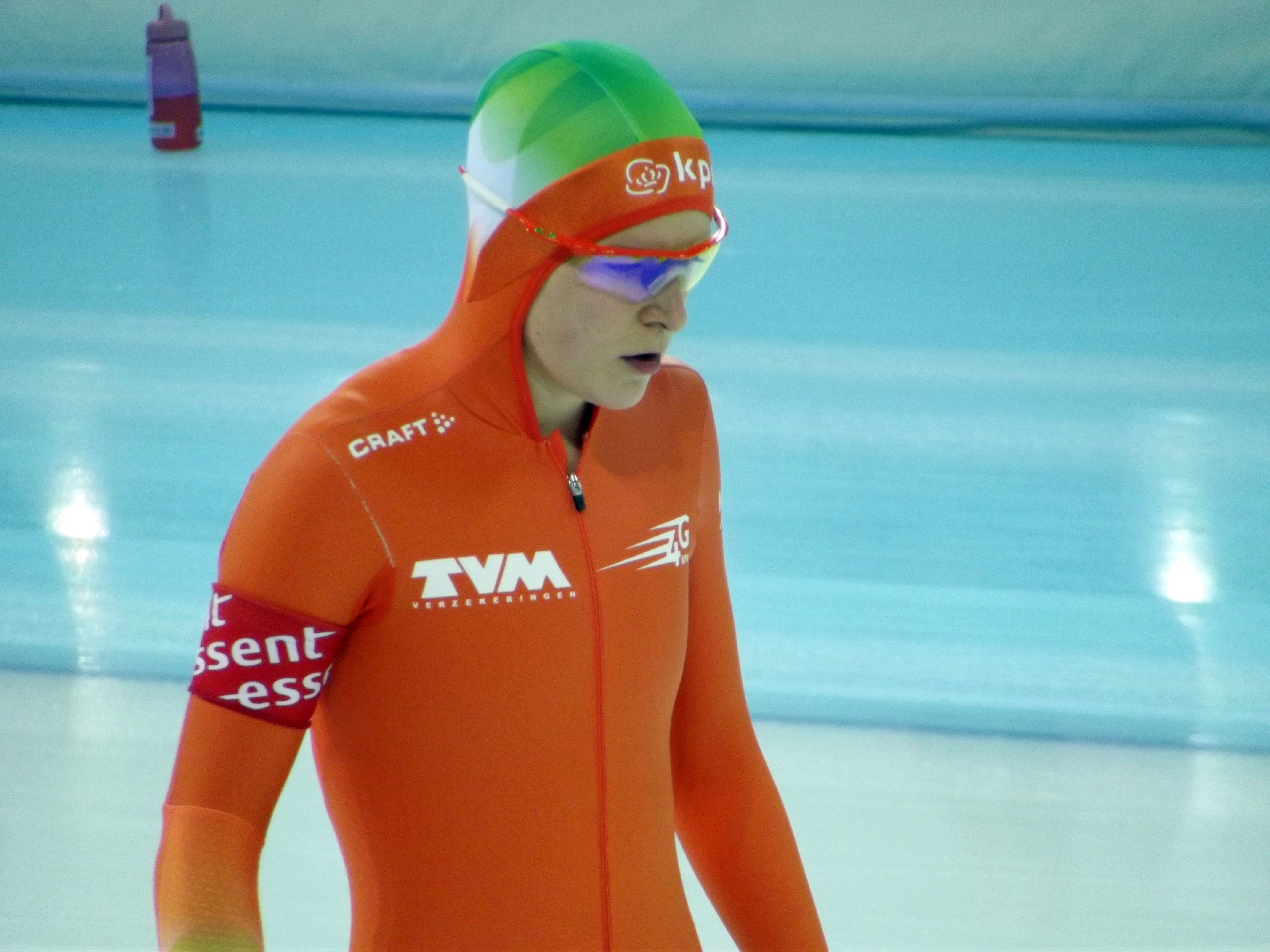 2013 World Single Distance Speed Skating Championships